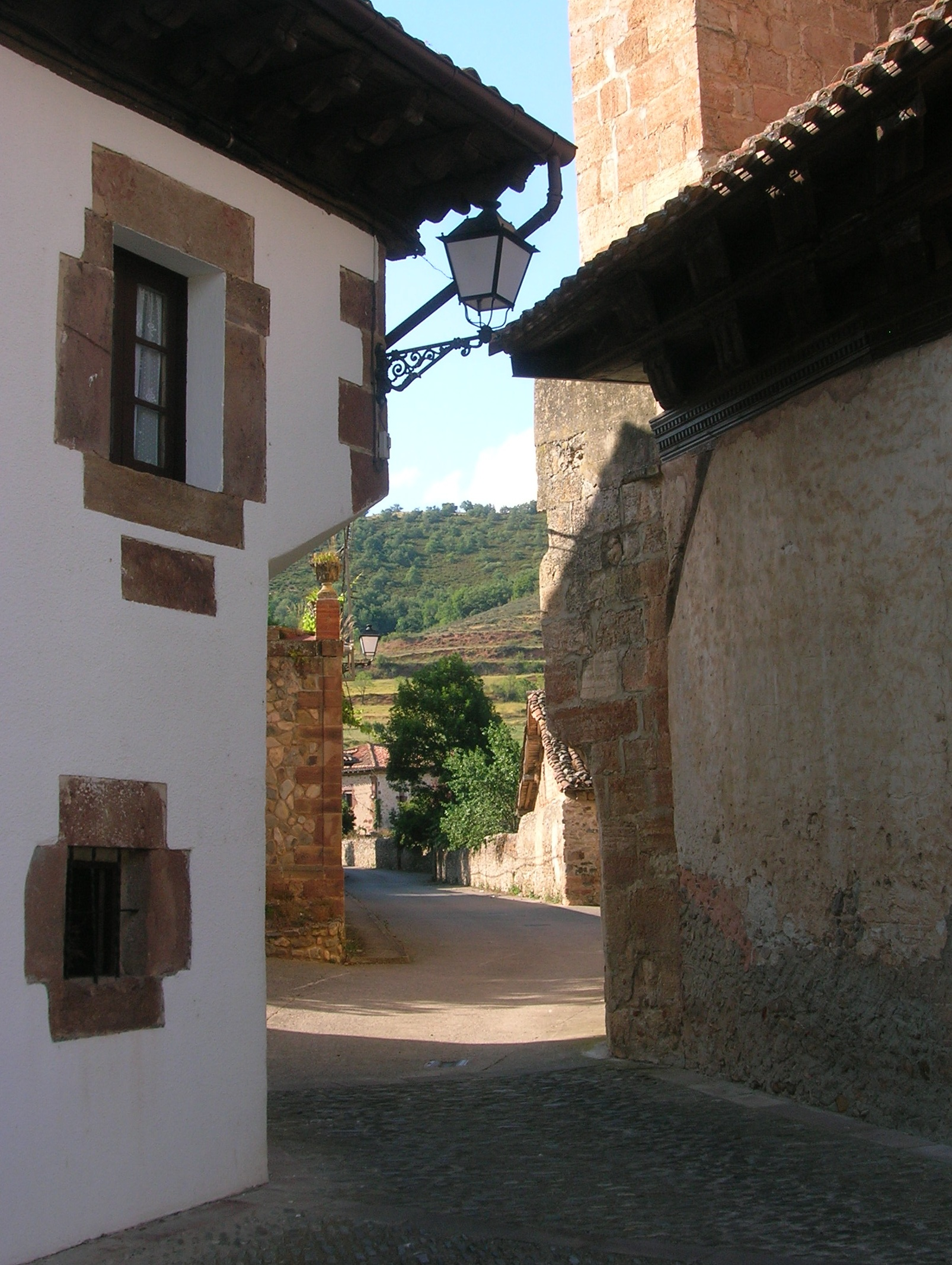 House and church in Ojacastro, La Rioja, Spain